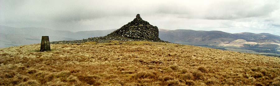 Trig point and cairn on Cairnkinna - Scaur hills